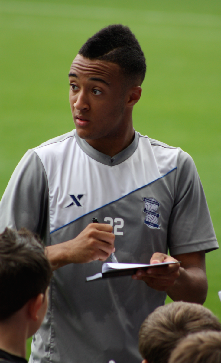 At Birmingham City open training session at St.Andrews' Stadium.